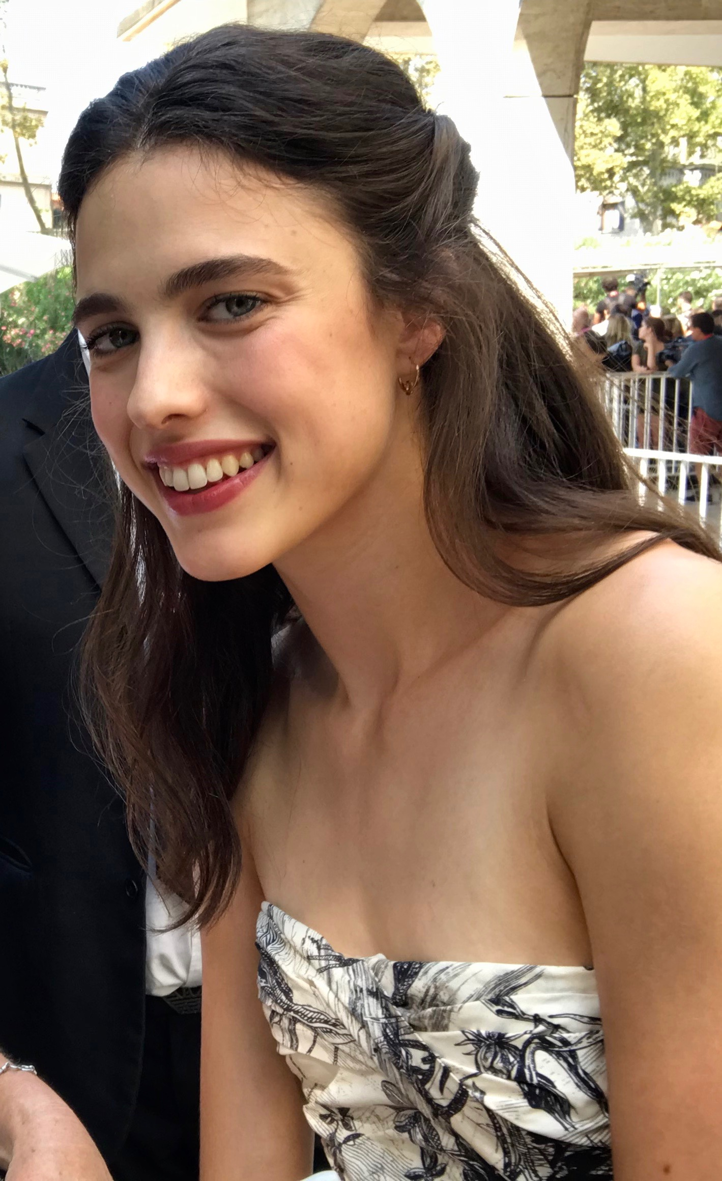 Actress Margaret Qualley at the premiére of the film "Seberg" in Venice